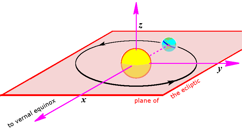 Diagram of rectangular heliocentric ecliptic axes, depicting the Sun, Earth w/ equator, plane of the ecliptic, vernal equinox direction.